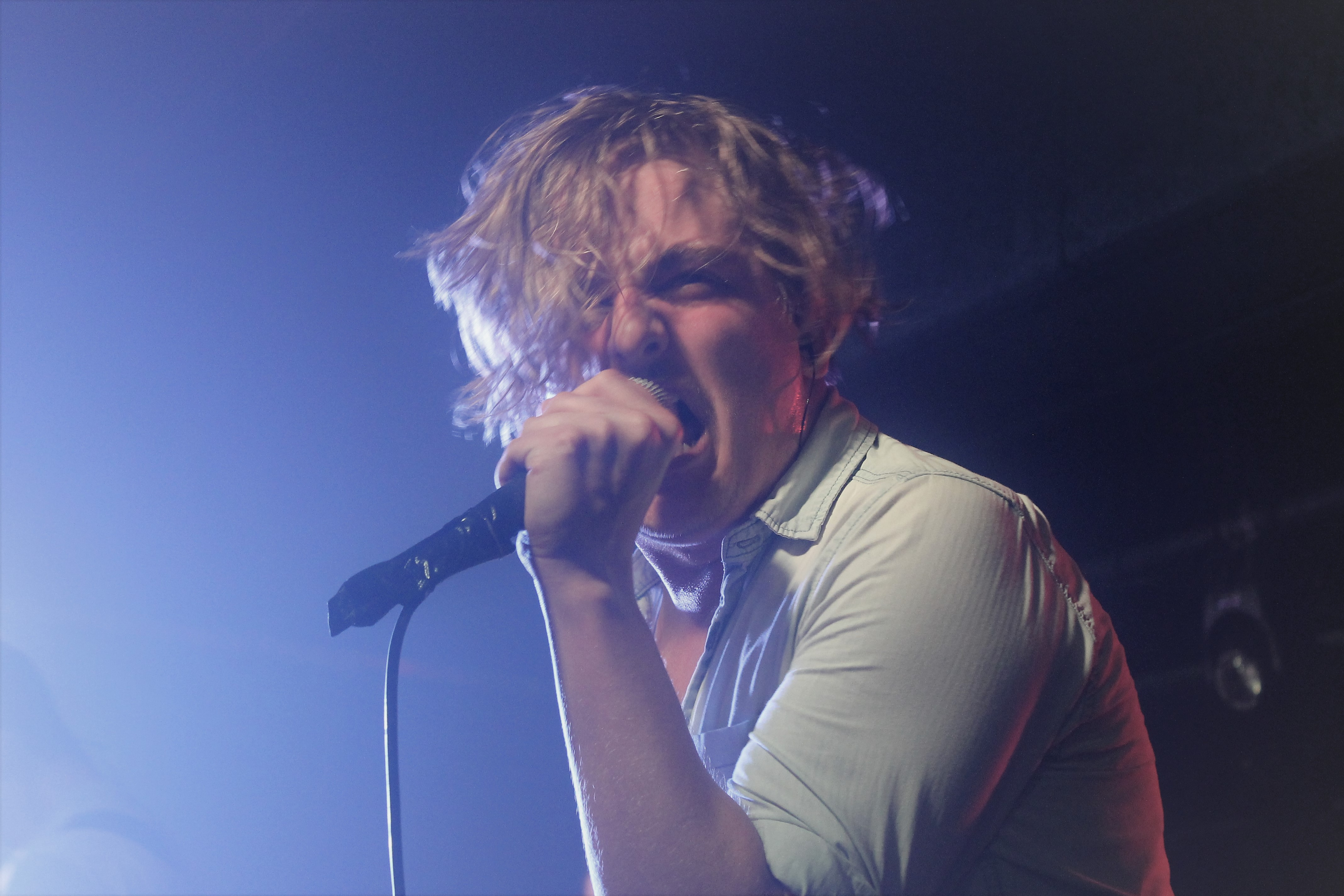 Örs Siklósi, lead singer of AWS